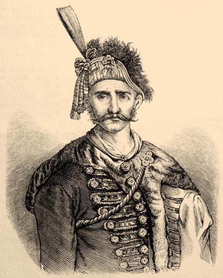 Portrait of János Kemény